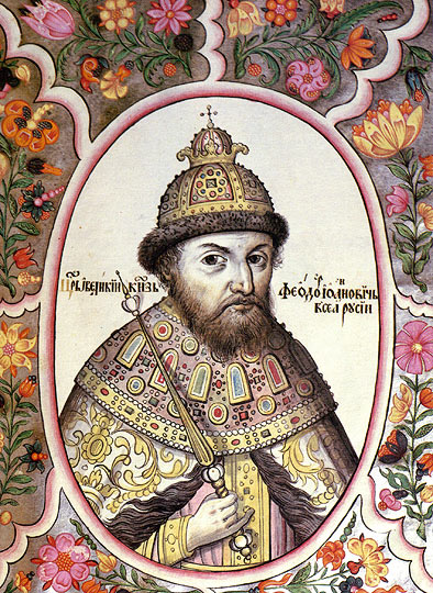 Feodor Ioannovich from "Tsarskiy titulyarnik"